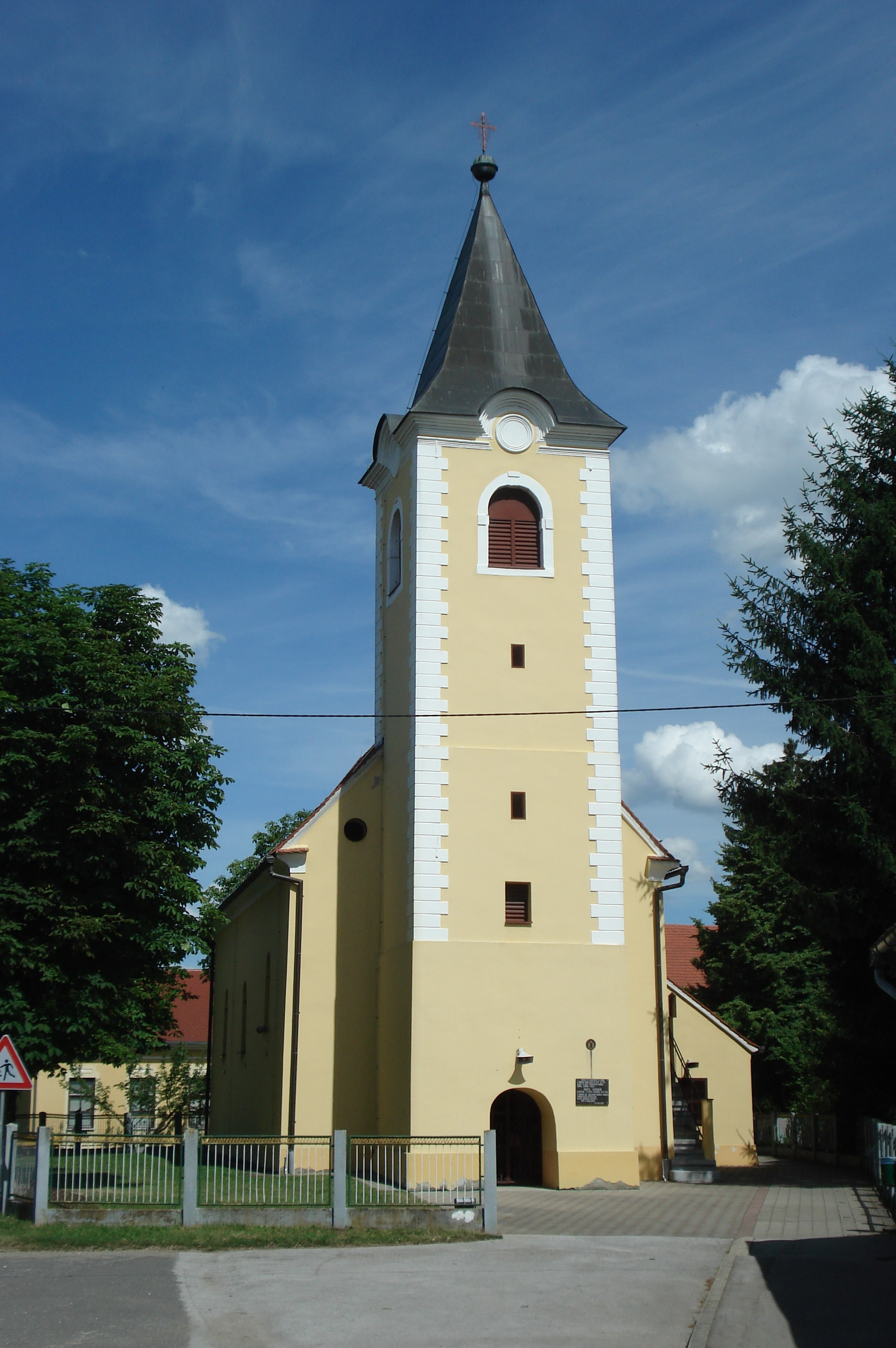 Saint Catherine the Virgin and Martyr Church in Gornji Mihaljevec village, Medjimurje County, Croatia